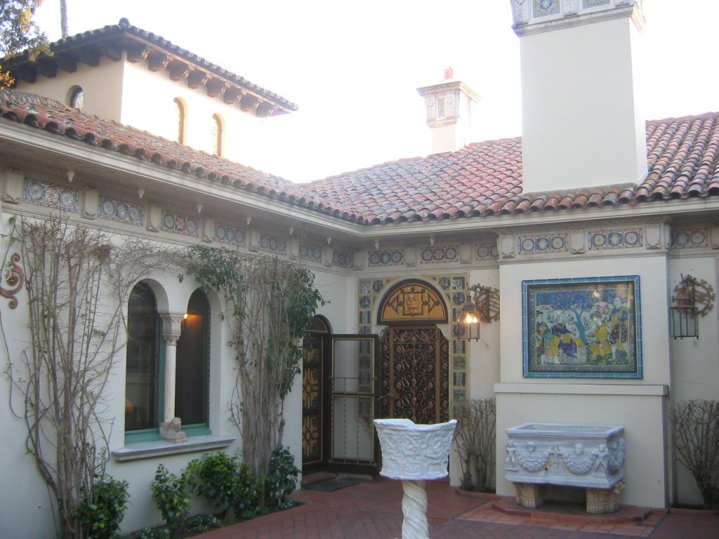 Description : Hearst Castle, California, USA. Author : own work, Urban ; I took this picture on April 2006.